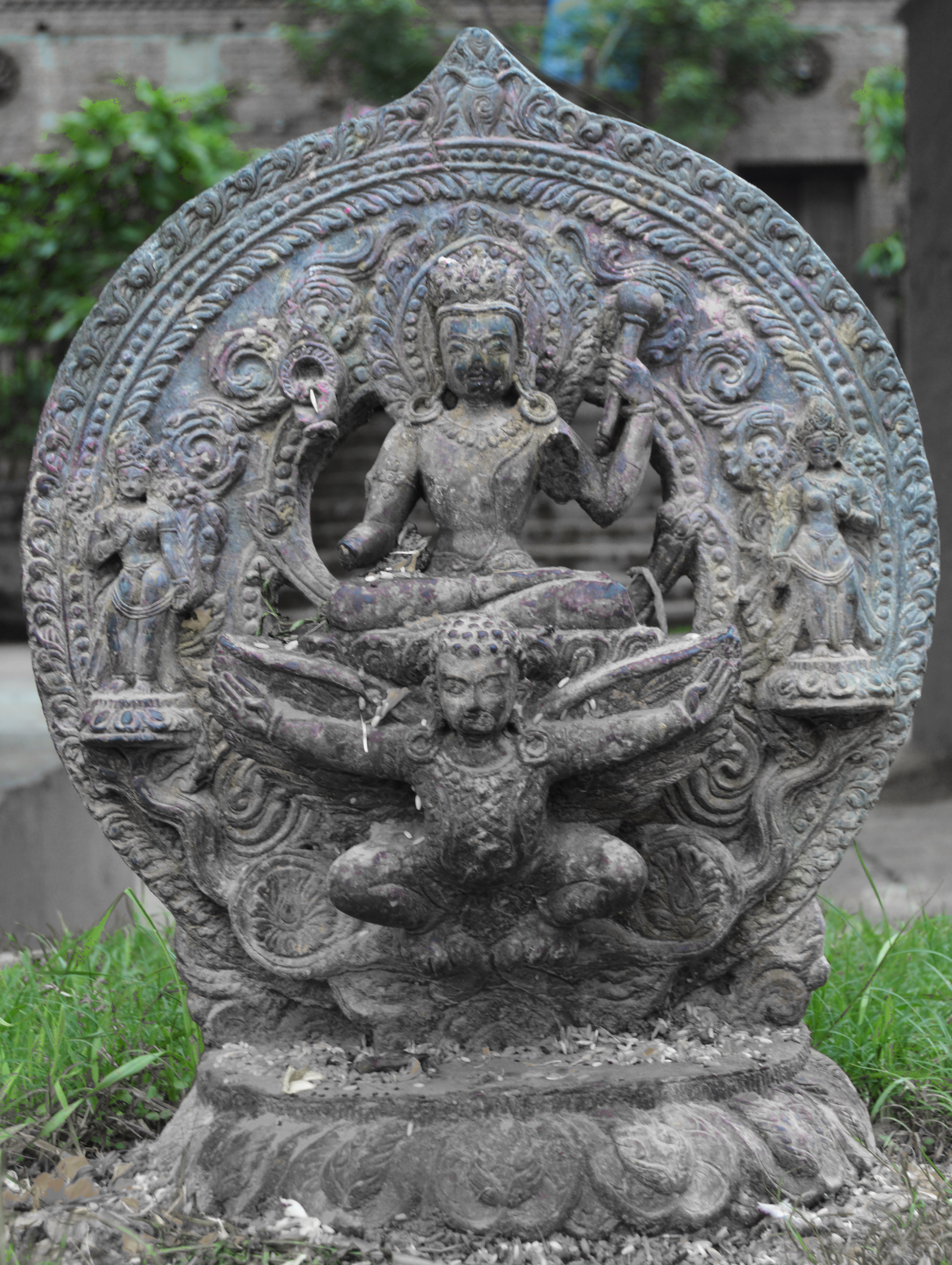 Kumbheshwar Temple (Mahadev)